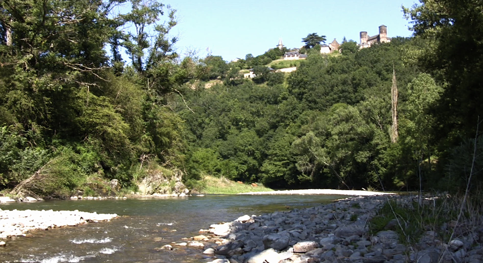 The river Lot at Pomayrols (Aveyron-France)